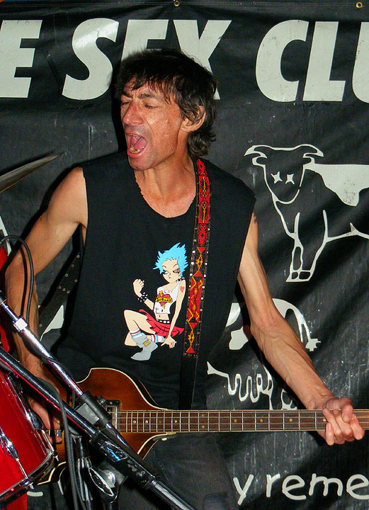 The Ugly,-[Sam Ferrara:Bass] at their 1st Reunion, Bovine Sex Club, Toronto, July-2008